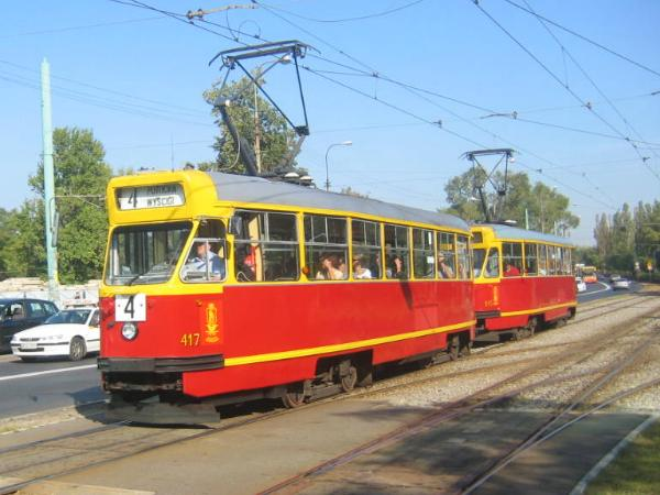 Konstal 13N tram in Warsaw, Poland.